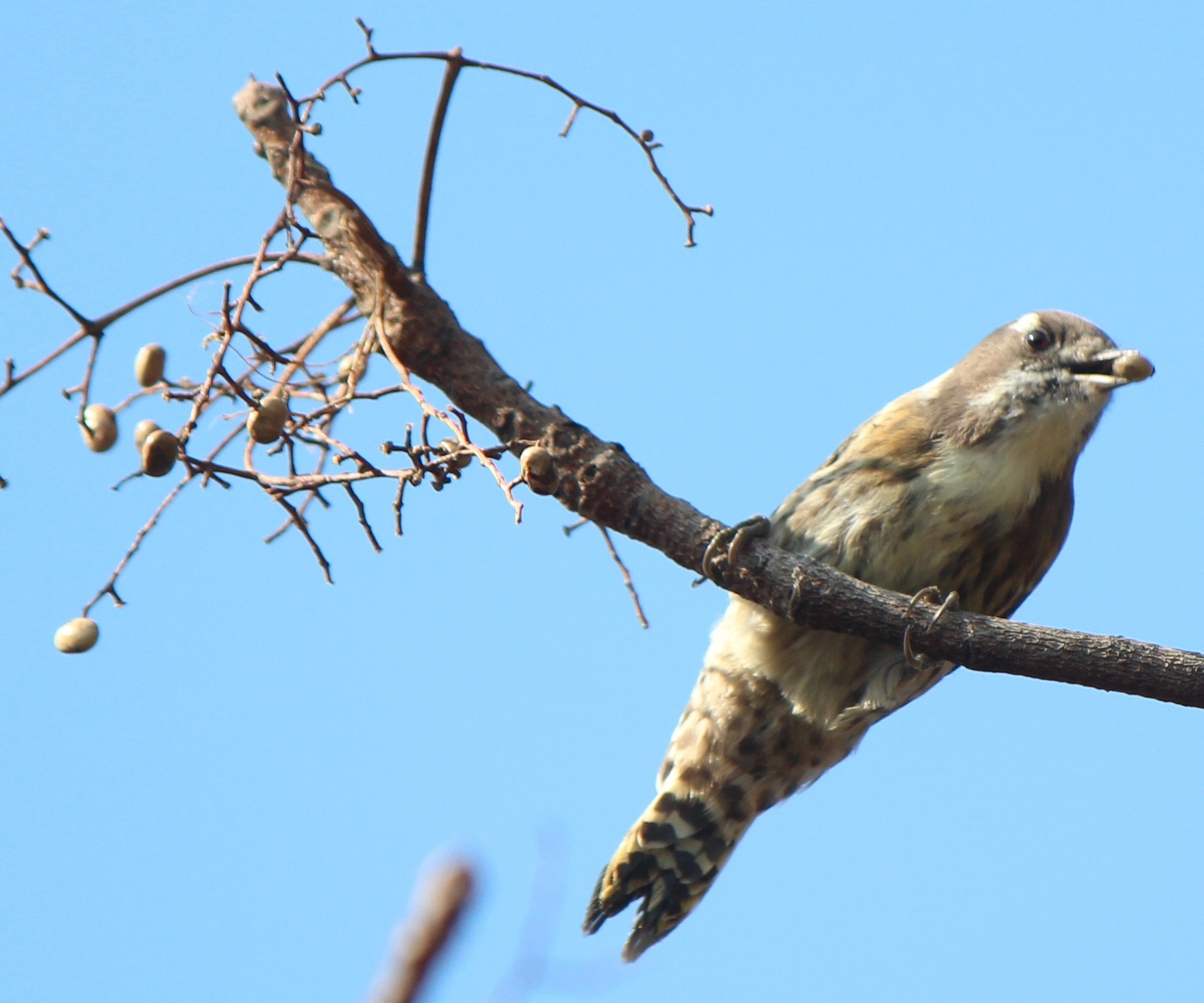 Dendrocopos kizuki seebohmi (Japanese Pygmy Woodpecker), eating fruits of Toxicodendron succedaneum (Rhus succedanea) in Japan.